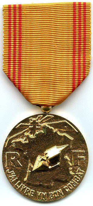 Defaulter's medal 1939 - 1945. France